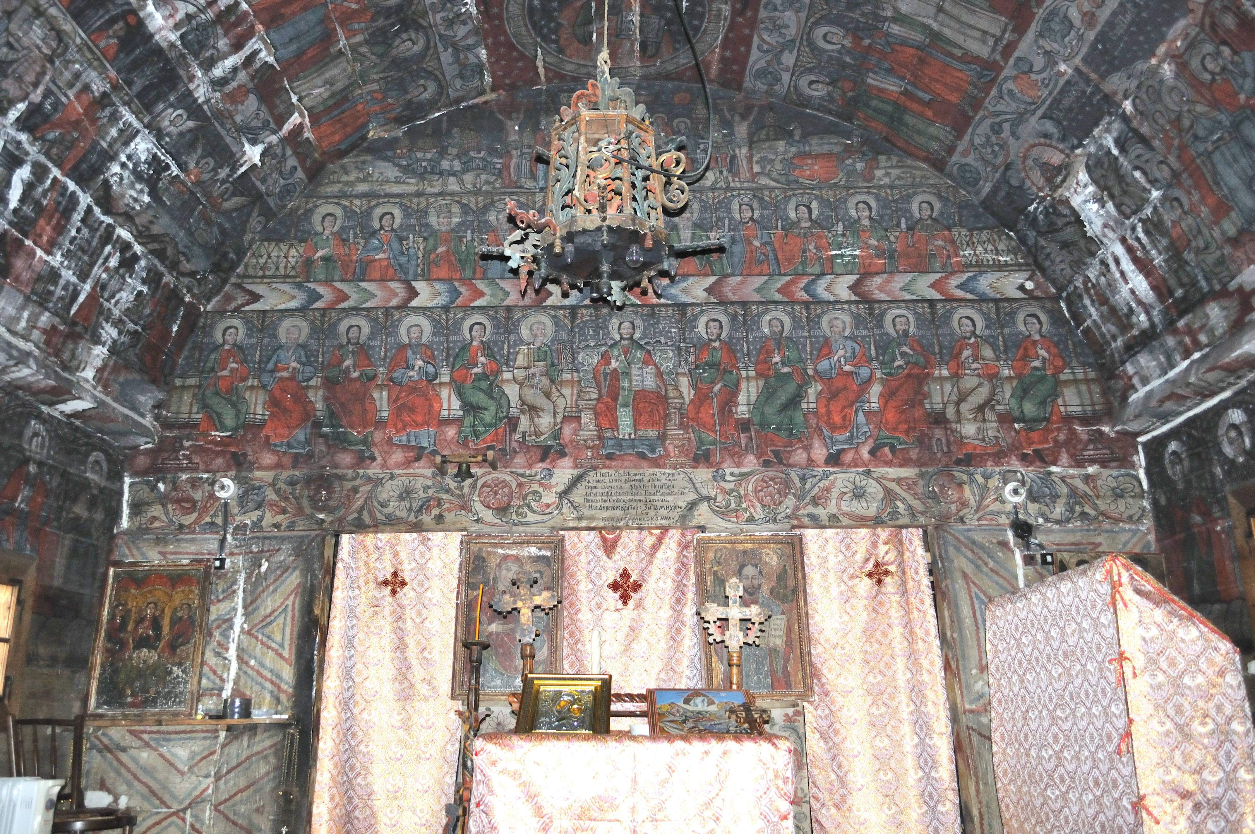 Wooden church in Bica, Cluj countyRomână: Biserica de lemn din Bica, județul Cluj